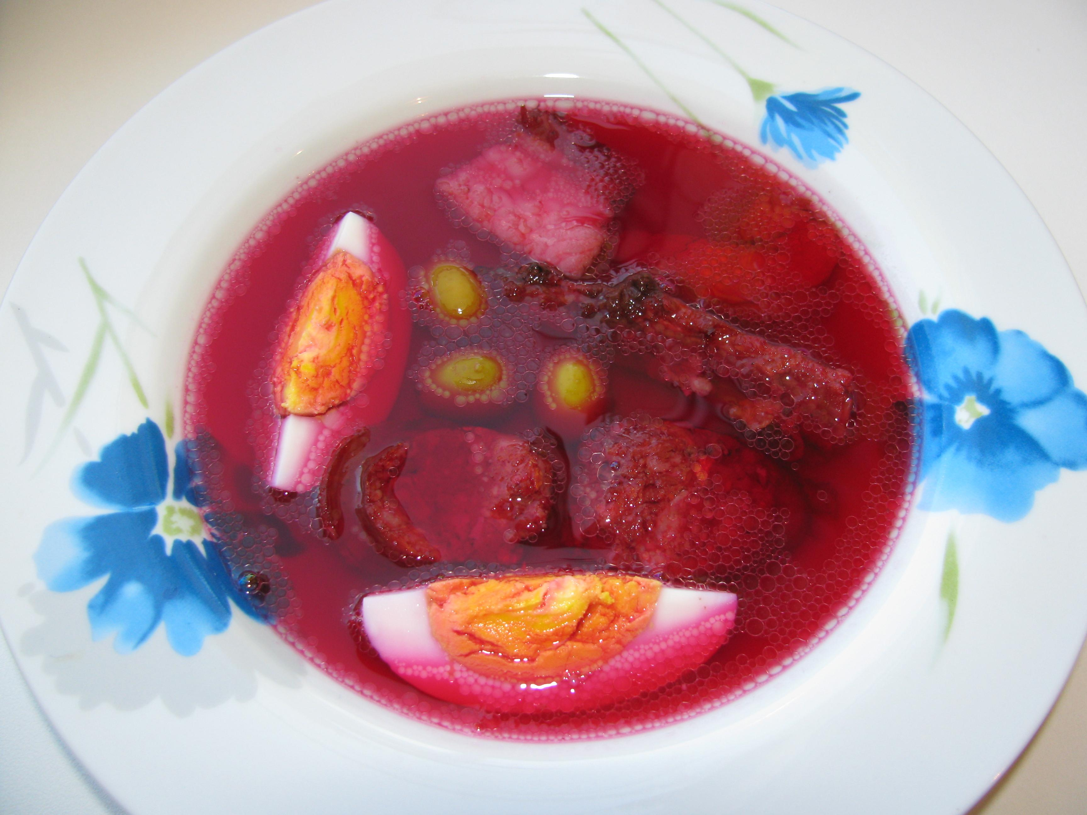 Easter borscht